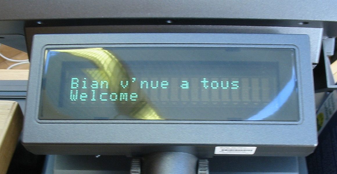 Saint Peter Port, Guernsey